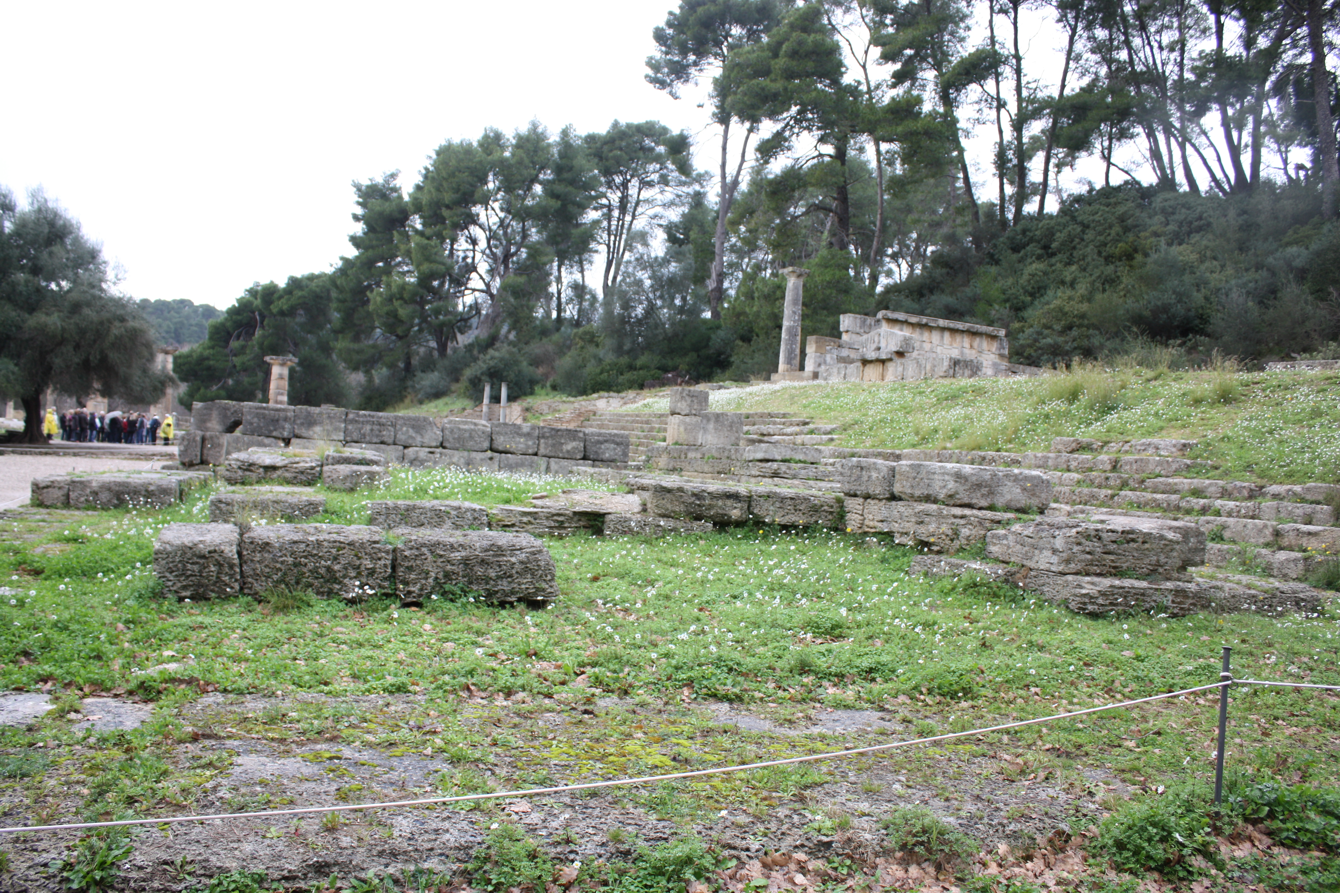 Metroon temple in northern Olympia, Greece.